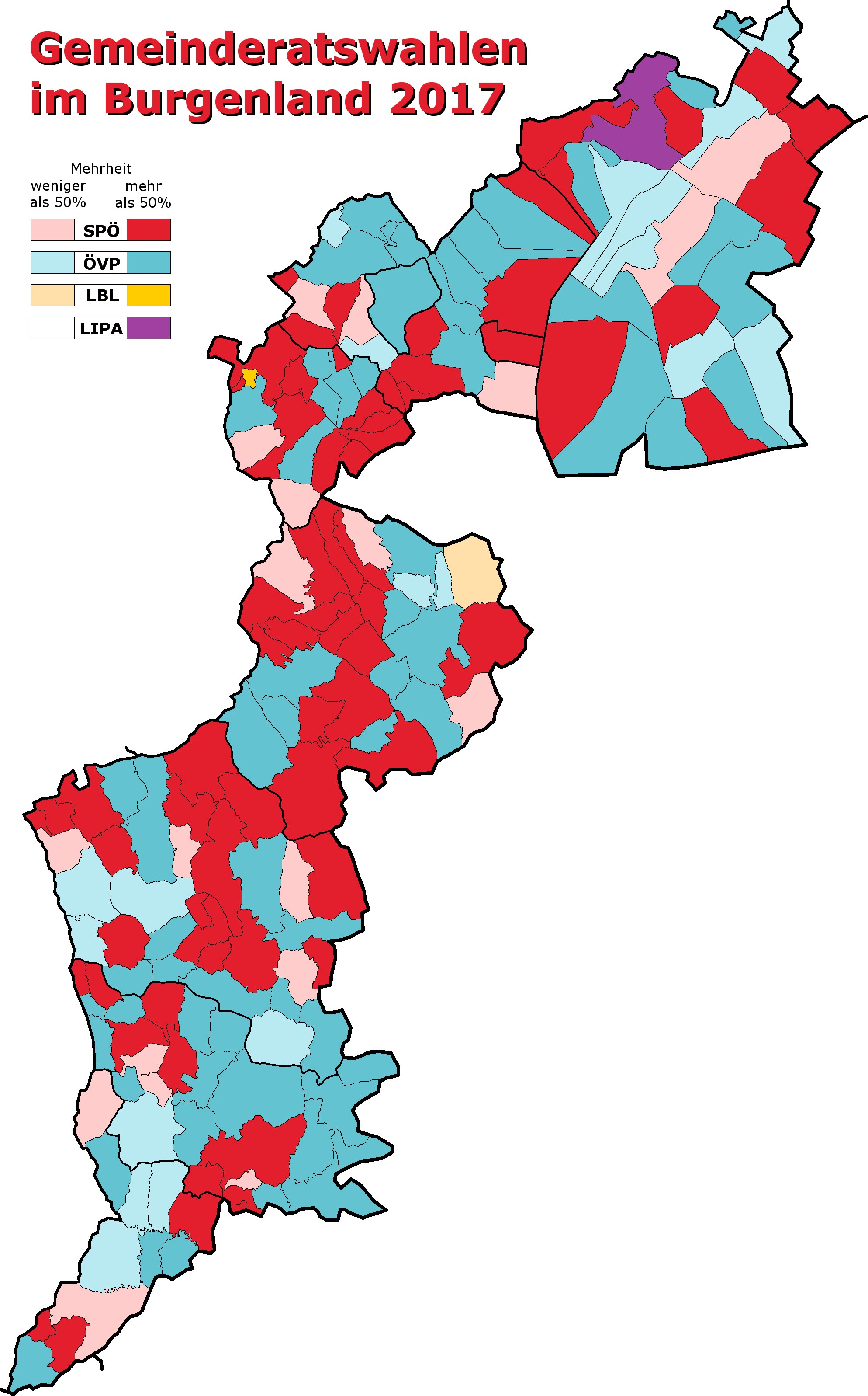 Local elections in Burgenland 2017 - community results